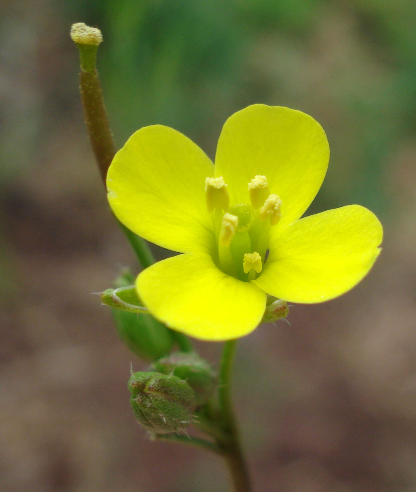 Diplotaxis muralis (Unterfranken, Germany)